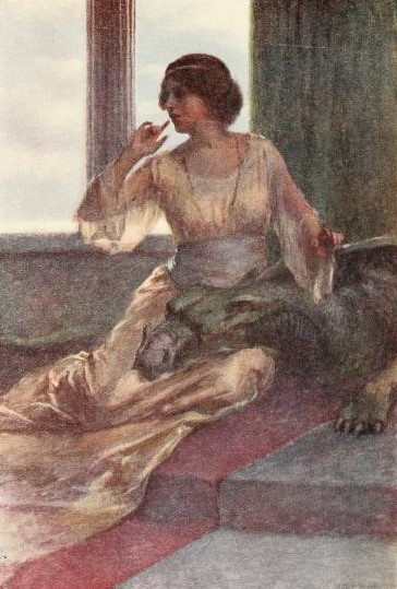 Scene from Serbian tale "A Pavilion Neither in the Sky nor on the Earth" (Чардак ни на небу ни на земљи). Caption "Sitting with the sleeping dragon's head on her knee"